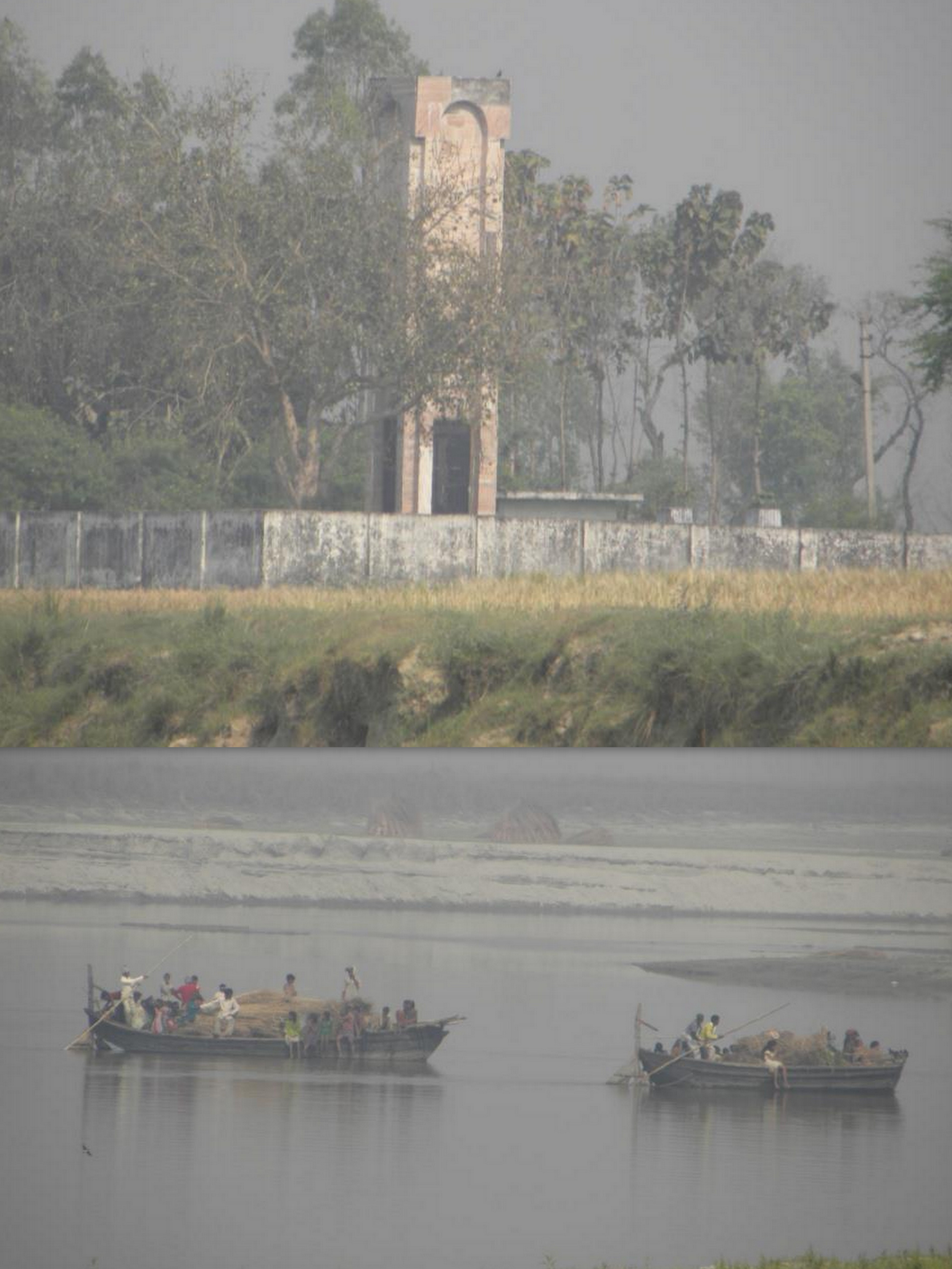 Image of Paina